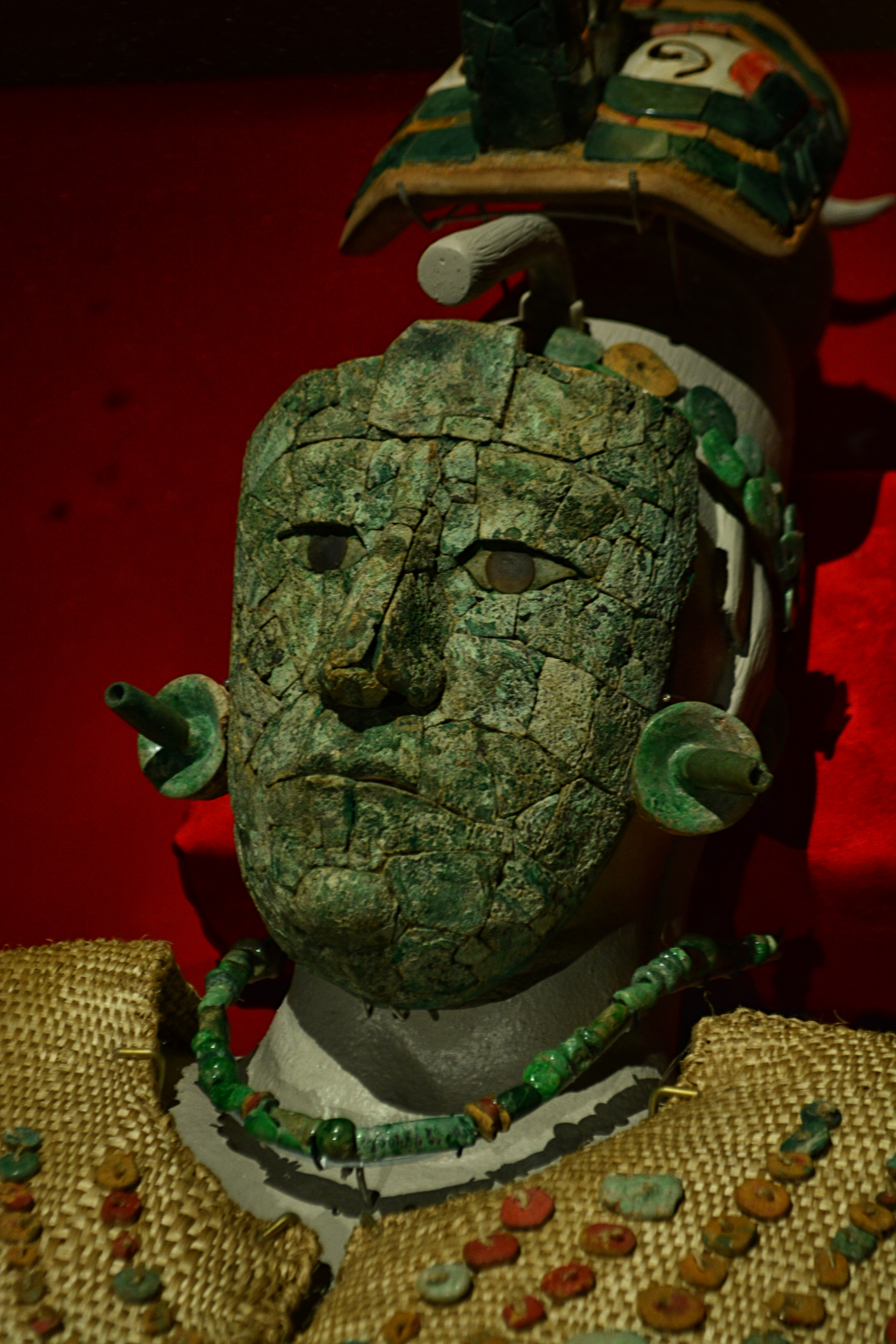 Funerary trousseau of the "Red Queen" of Palenque, shown in the exhibition "The Red Queen, The Journey to Xibalbá", Museo del Templo Mayor, Mexico City, Mexico.